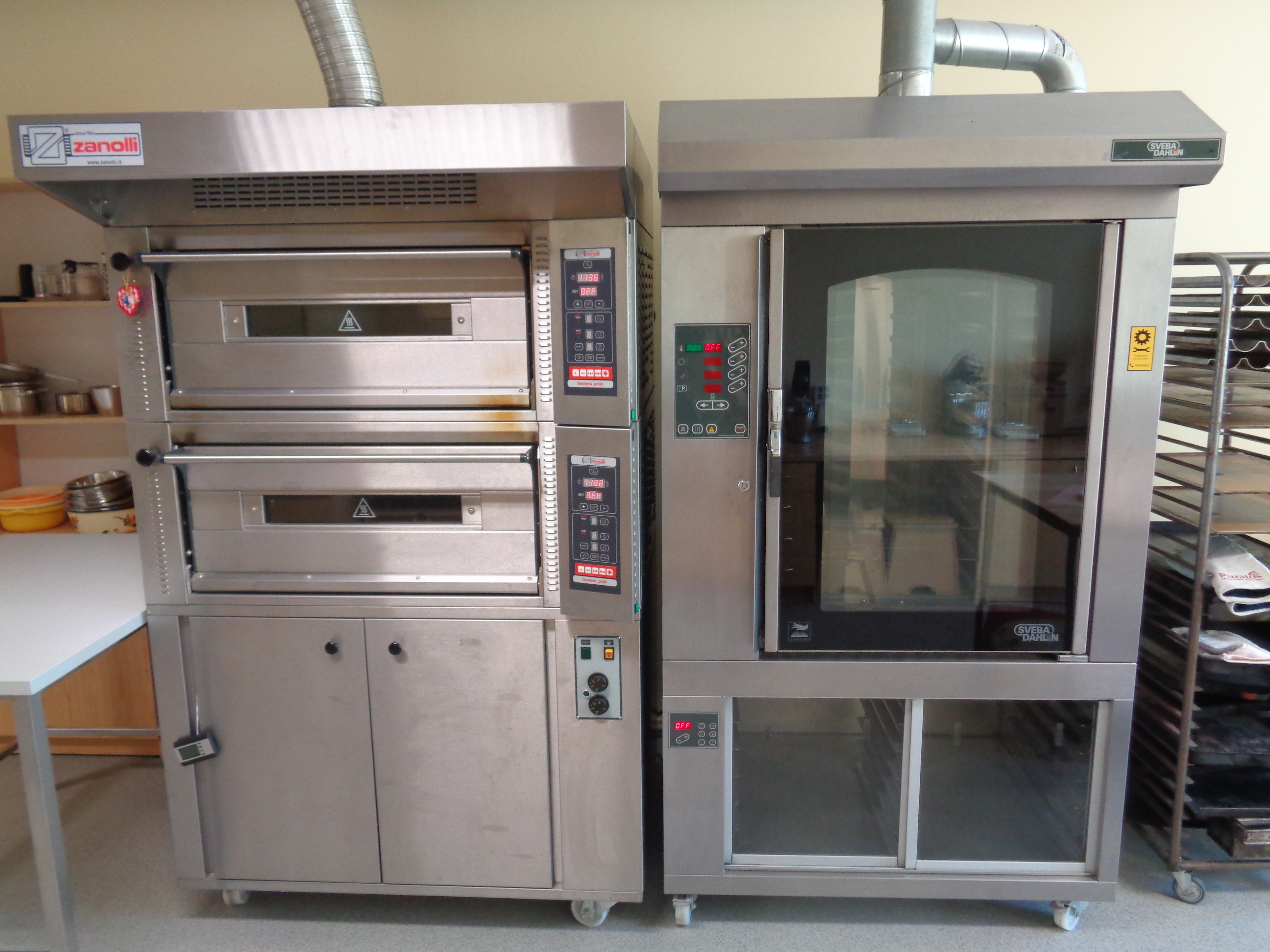 Industrial "Zanolli" double hearth deck oven (left) and "Sveba-Dahlen" rotary rack oven (right) at the Faculty of Food Technology, Latvia University of Life Sciences and Technologies bakery.